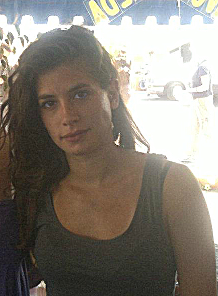 Giulia Michelini in Fiumicino